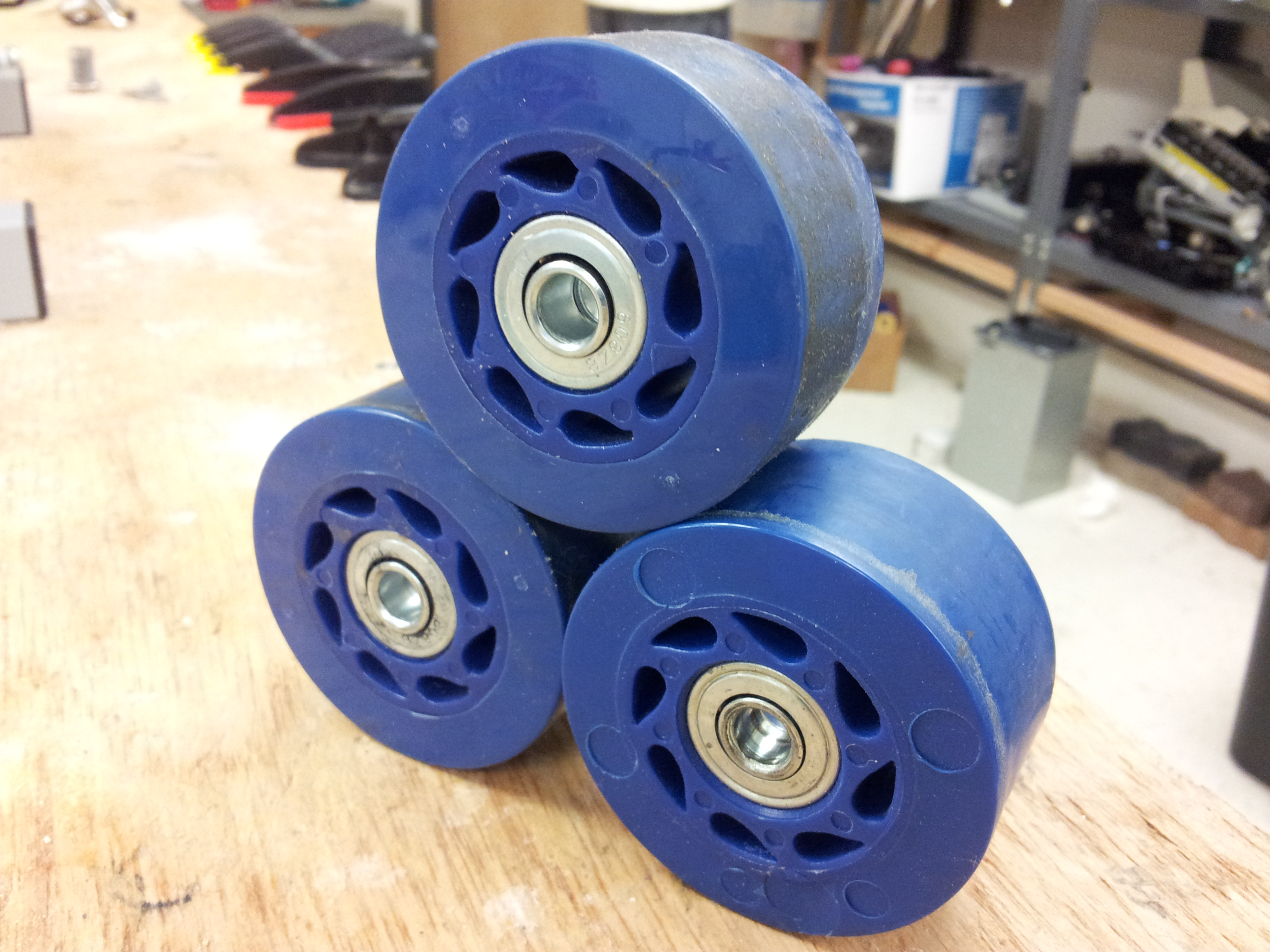 skateboard wheels from the back.